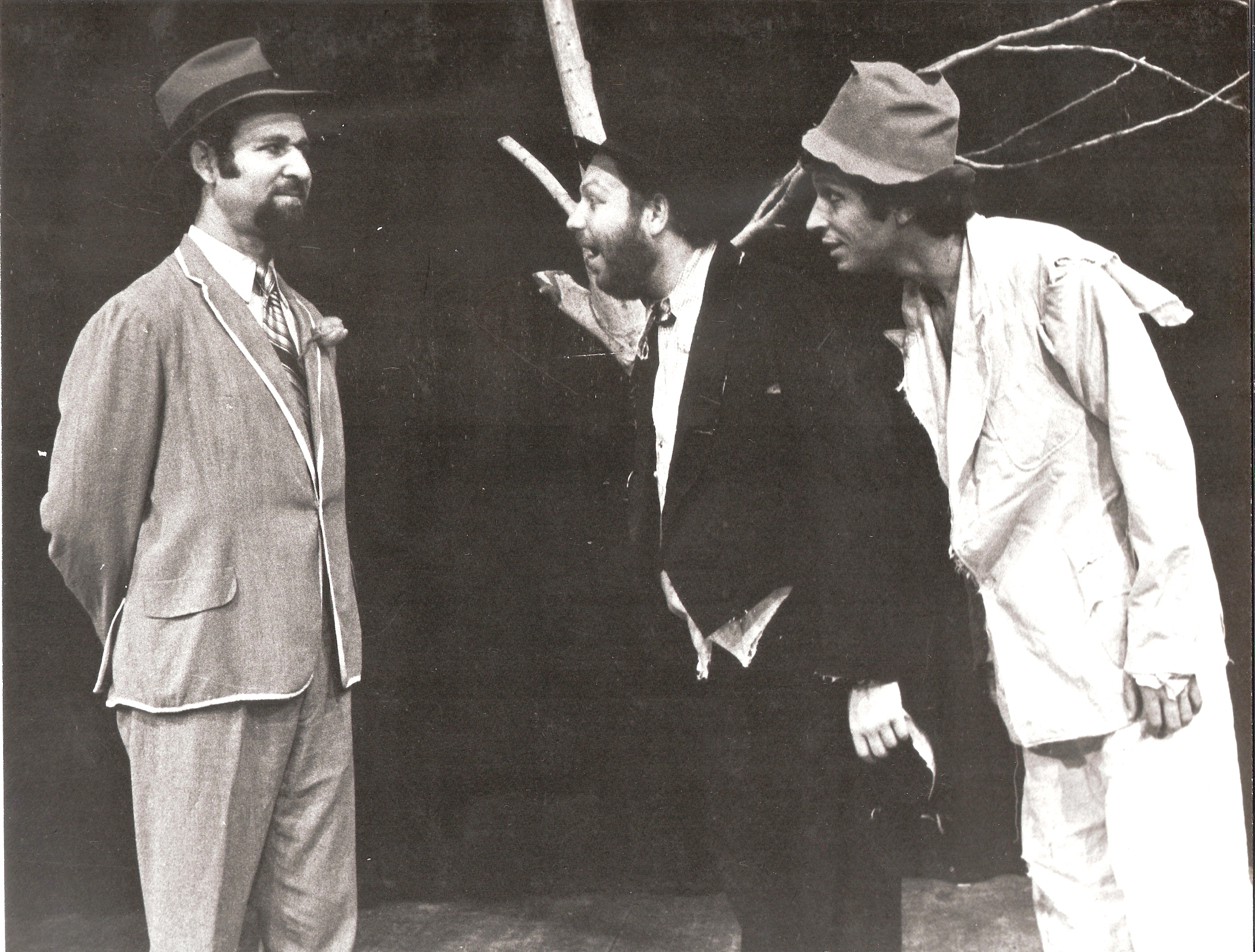 אלי כהן שי דנון ושמעון לב ארי בהצגה מחכים לגודו. צוותא 1973